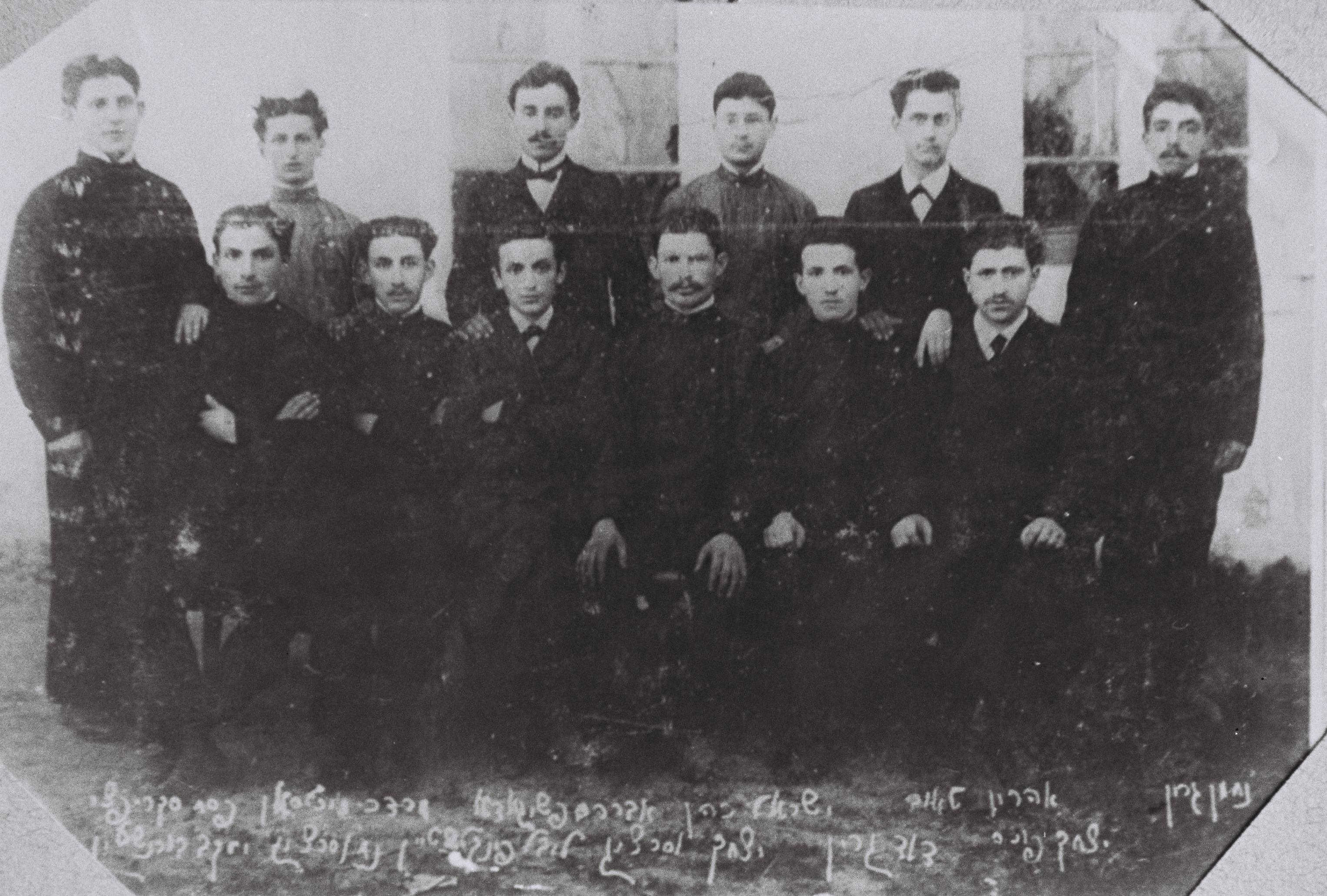 POALEI ZION GROUP "EZRA" IN PLONSK AMONST THE GROUP IS DAVID BEN GURION 2ND FRONT. 01/10/1906.